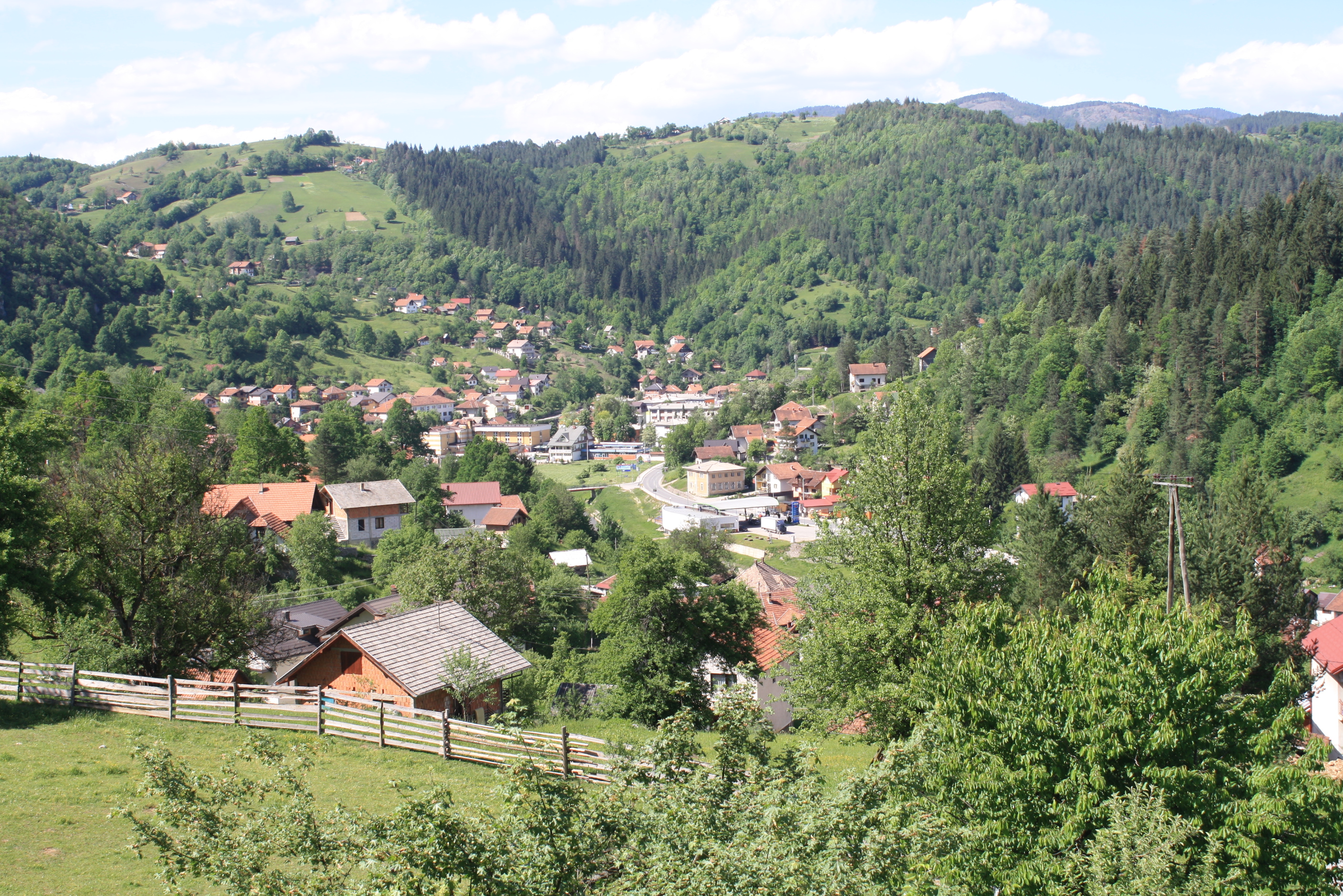 View of Olovo